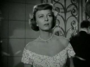 Cropped screenshot of Margaret Sullavan from the trailer for the film No Sad Songs for Me